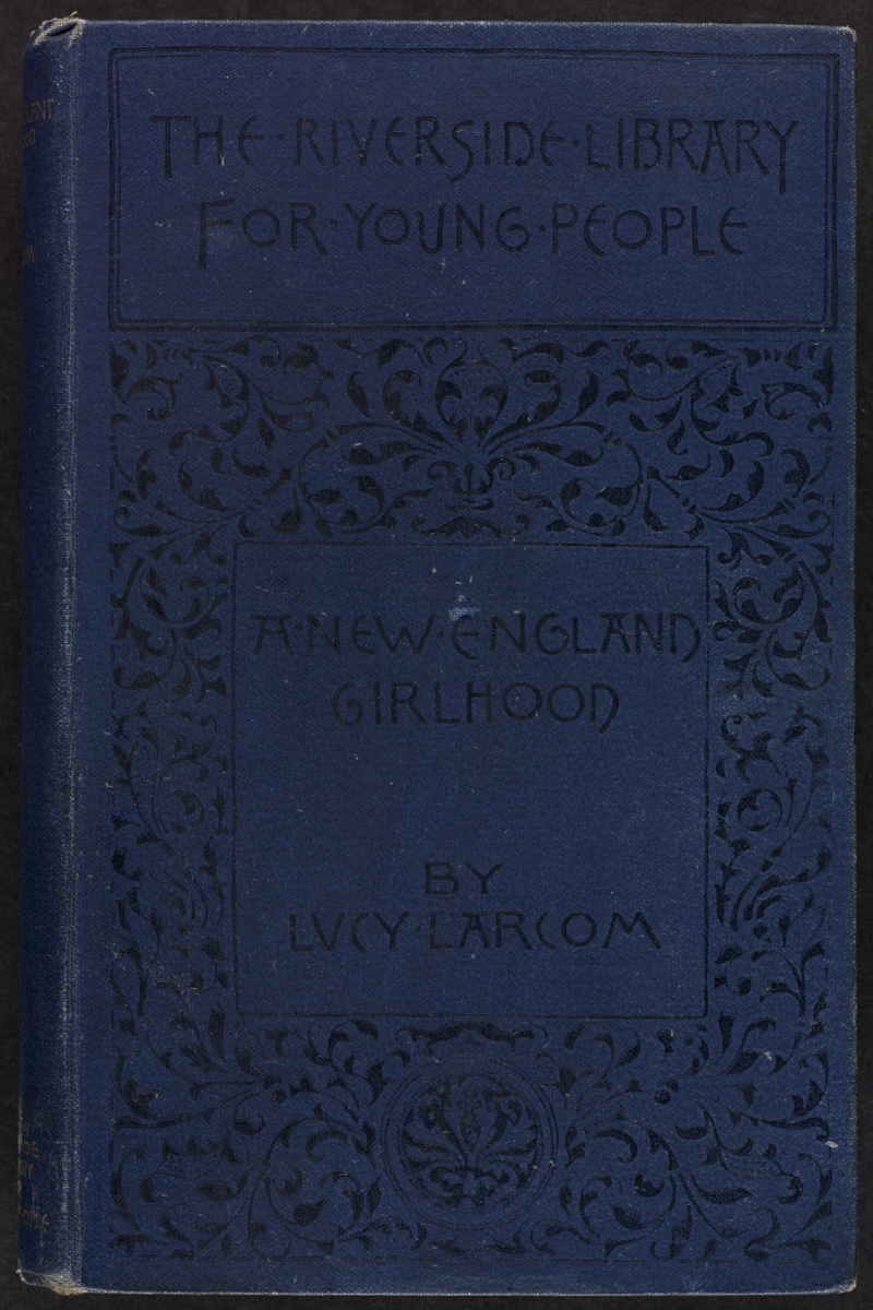 File name: 06_04_000239Title: LARCOM(1889) A New England girlhood, outlined from memoryDate issued: 1889Genre: Book coversNotes: Larcom, Lucy, 1824-1893 (Author)Collection: Sarah Wyman Whitman BindingsLocation: Boston Public Library, Special CollectionsRights: No known copyright restrictions.